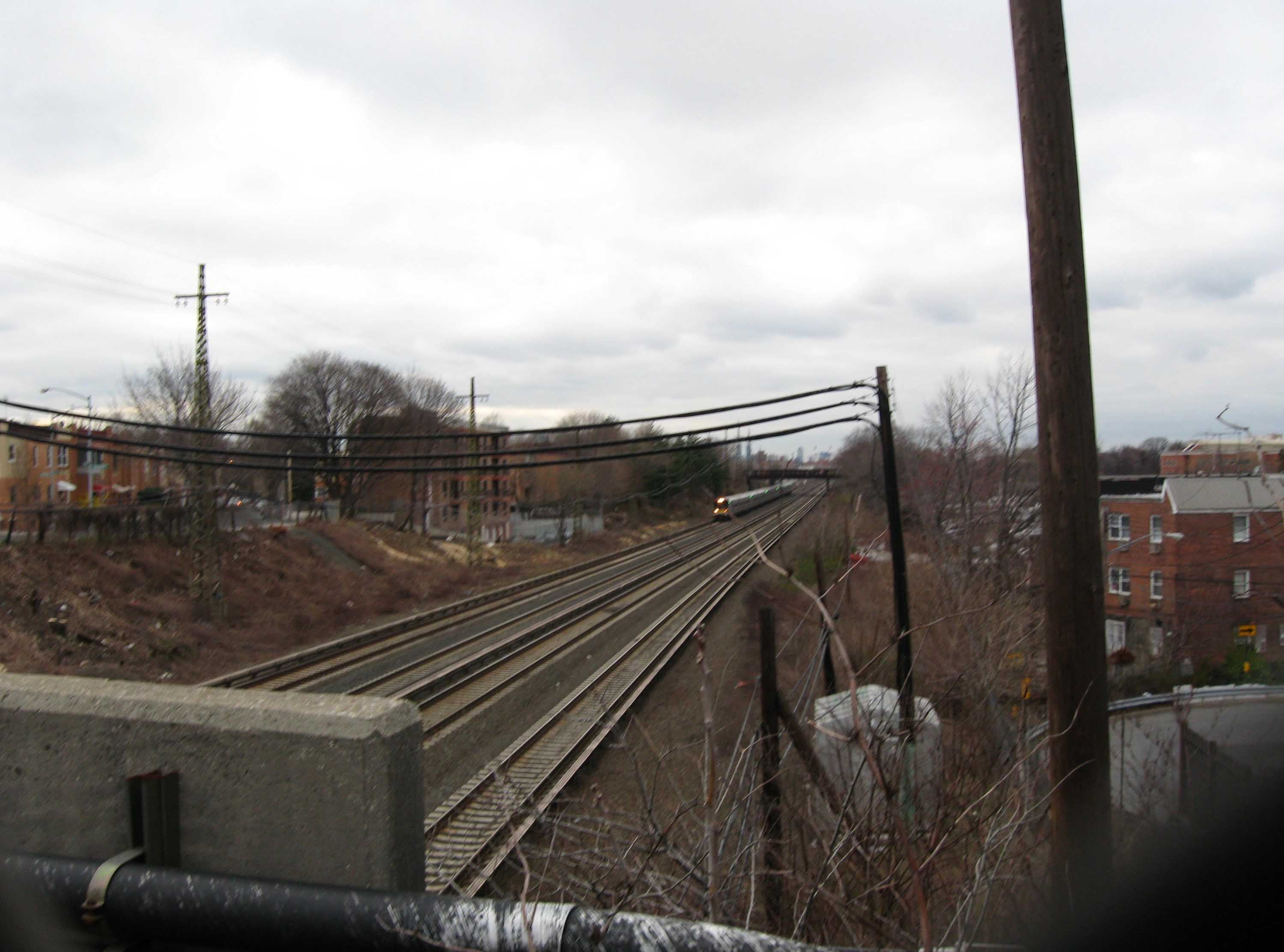 Eastbound train on Main Line (Long Island Rail Road) approaches Maspeth,Queens Maspeth on a cloudy afternoon in early spring looking west from Grand Avenue overpass.